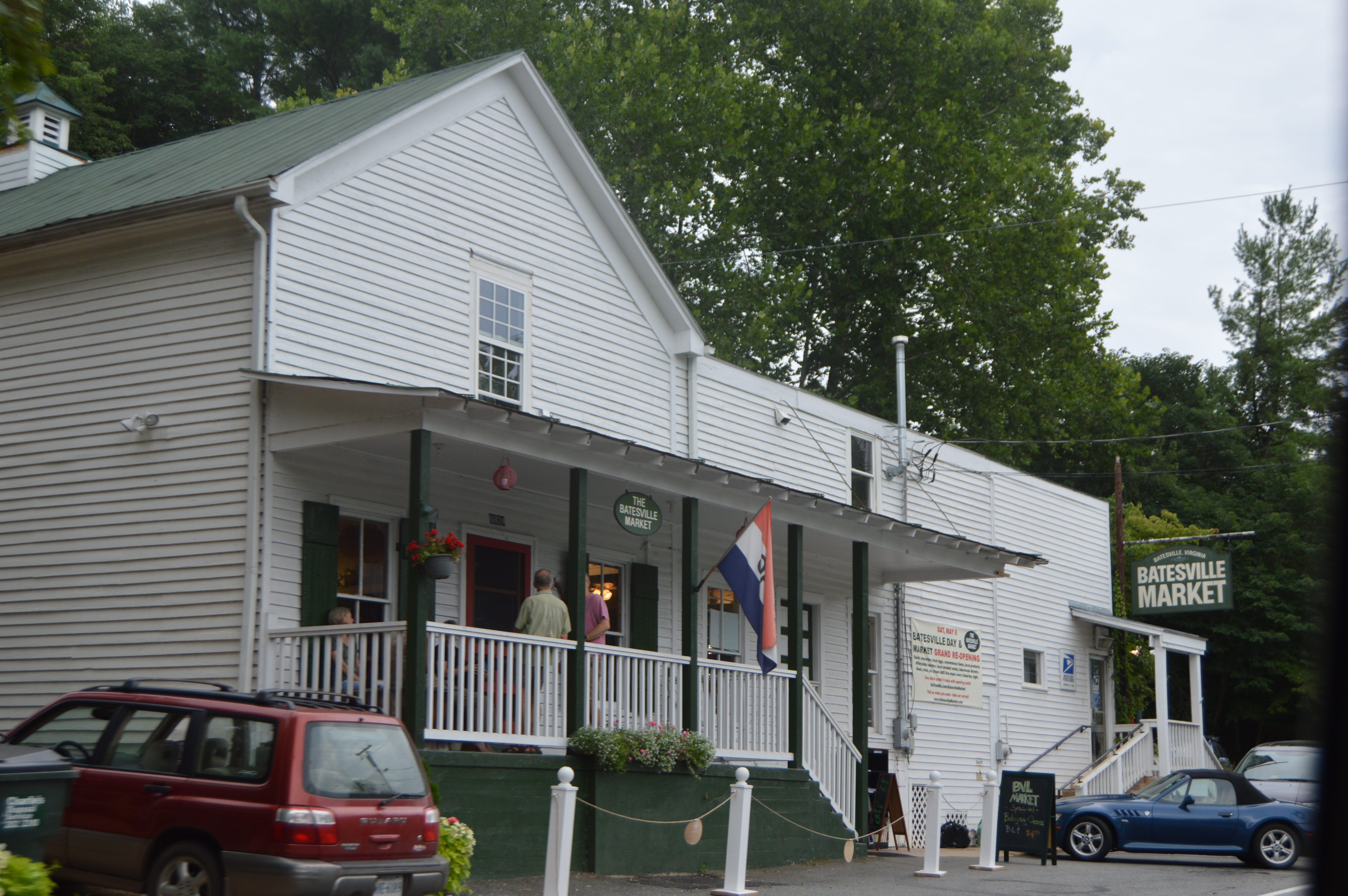 Front of the general store and post office in Batesville, Virginia, United States. Built in 1913 at the junction of Plank and Craigs Store Roads, the general store is part of the Batesville Historic District, a historic district that is listed on the National Register of Historic Places.